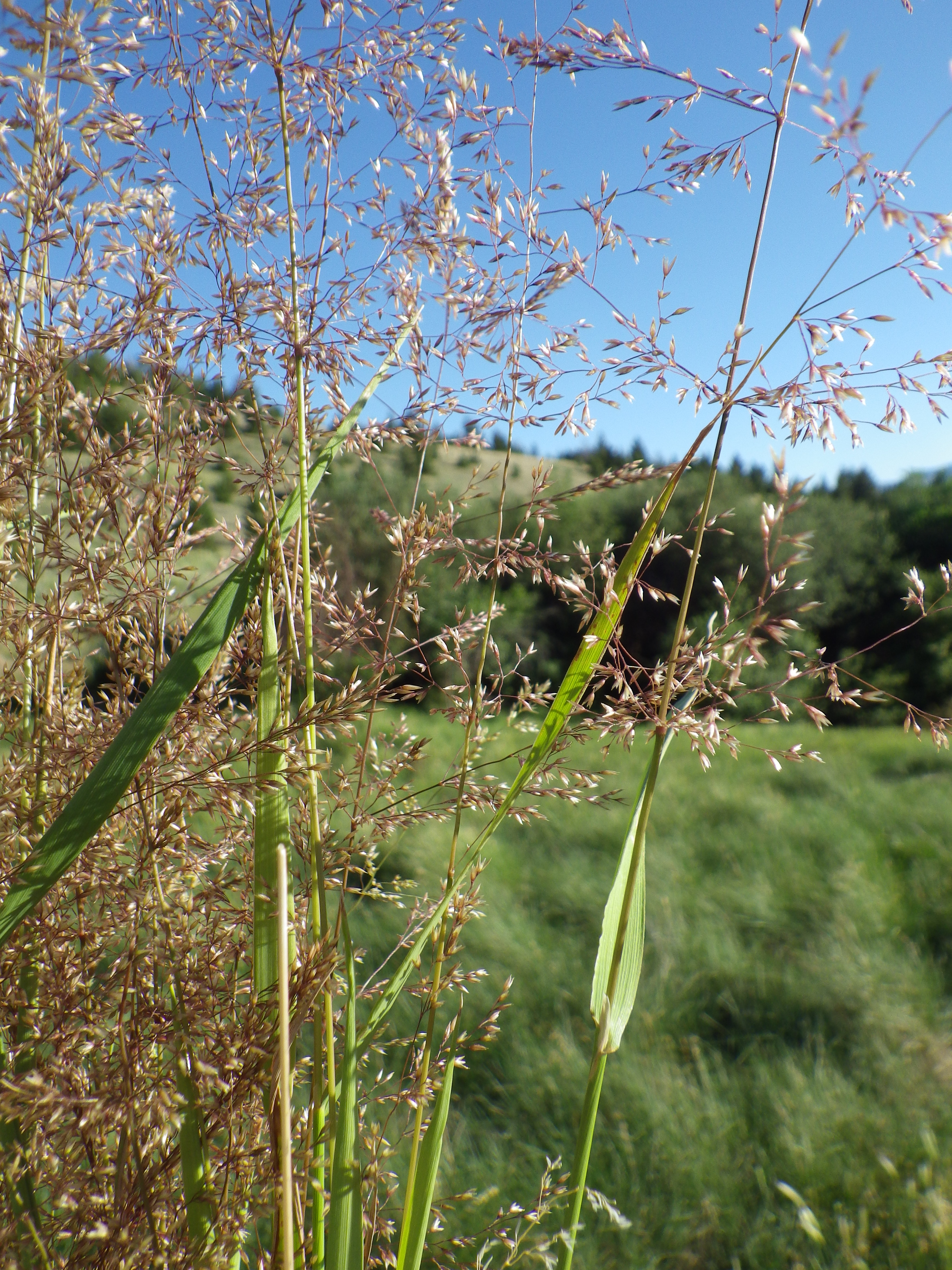 This introduced grass was growing with a bunched habit in an area that may have been vegetatively restored and there mainly at the bottom of shale barrens where perhaps water runoff was collected. The spikelets have well developed paleas and are borne generally along the length of the inflorescence branch. The ligules are about 4-5 mm long, generally longer than wide.